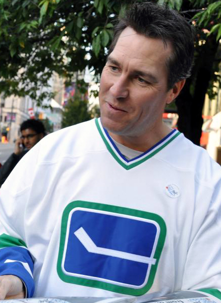 Retired Vancouver Canucks goaltender Kirk McLean on Raise A Reader Day 2009 in Downtown Vancouver.